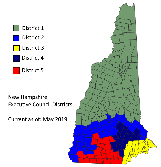 Map of the New Hampshire Executive Council districts as of May 2019 This PNG graphic was created with QGIS